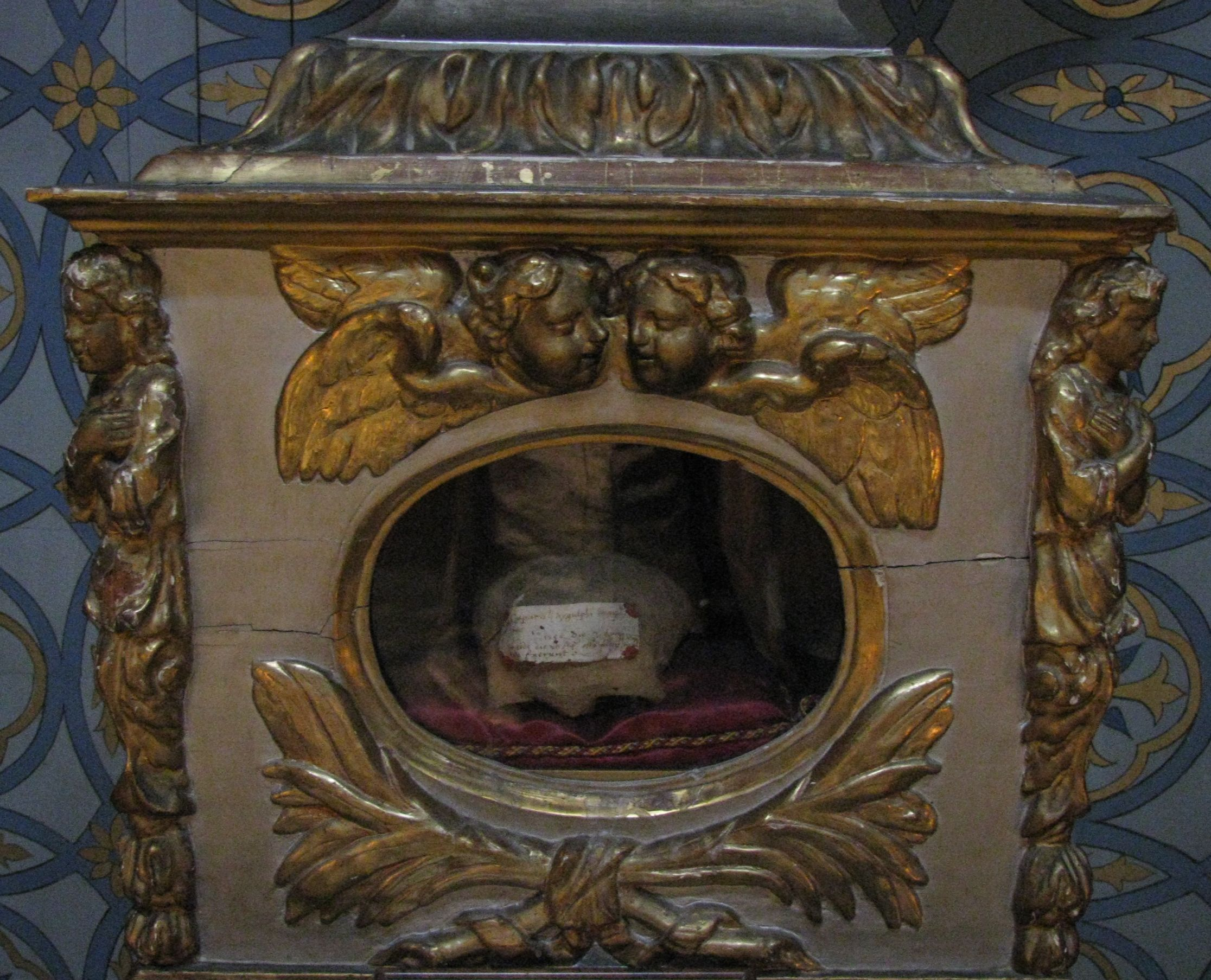 Relics of saint Honoratus in Grasse Cathedral